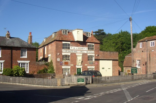 Chesapeake Mill, Bridge Street, Wickham A former corn mill built in 1820 and in use until the 1970s - a stone plaque is inscribed 'ERECTED AD 1820 J PRIOR'. Inside the five main spine beams to each floor, the floor joists, the roof timbers and most of the window lintels are of American longleaf pine, known to have originated in the American warship Chesapeake, captured by HMS Shannon 1st June 1813. The Chesapeake was one of four American frigates of 44 guns built at Gosport naval yard in Virginia and launched on February 28th 1799. After being captured, she served with the Royal Navy from 1814 to 1819, when the ship was taken to Portsmouth and dismantled. The capture of The Chesapeake was a famous naval action for the Royal Navy and was famous in the United States for the dying words of Captain James Lawrence "Don't give up the ship". The mill-owner's house on the left is a little earlier than the mill.